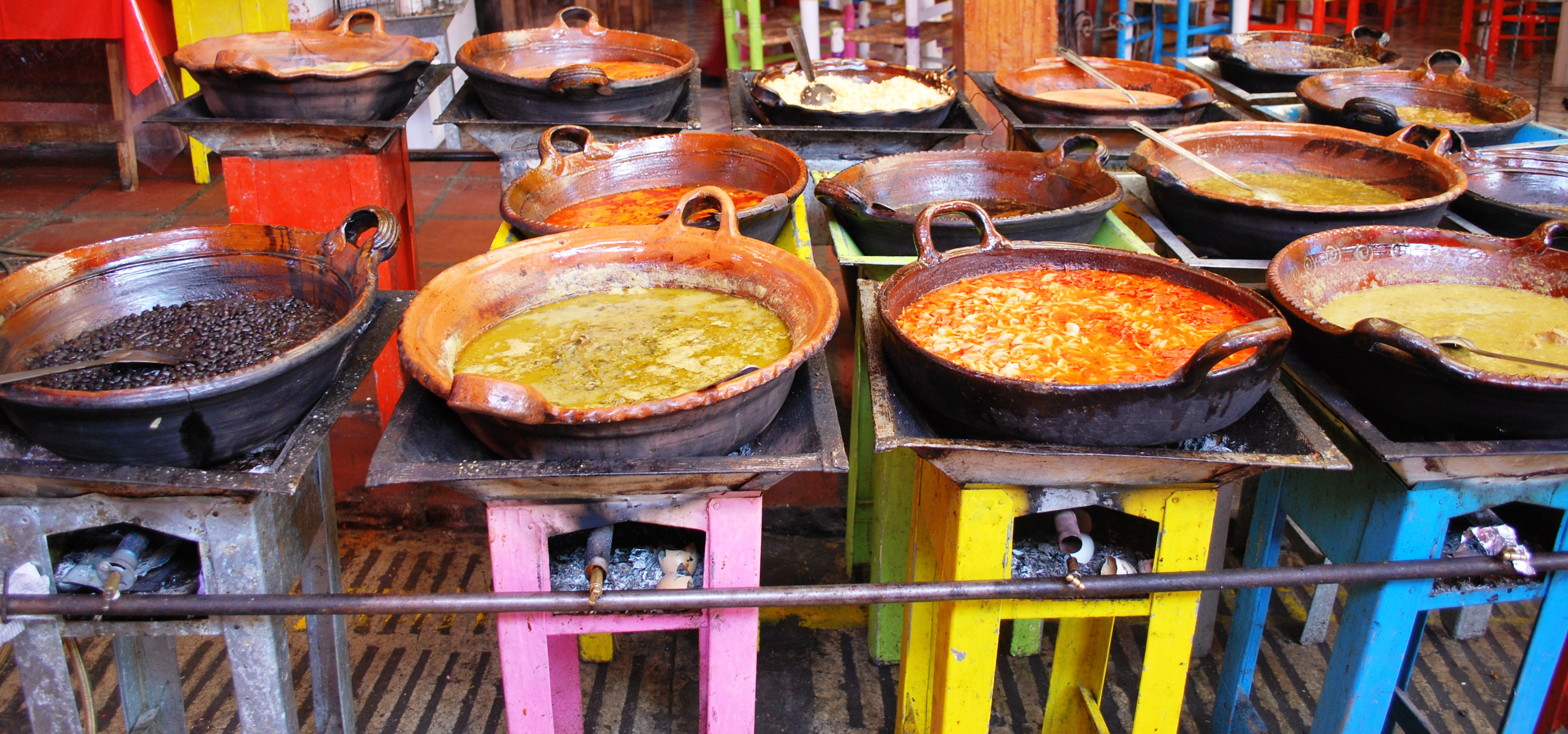 Clay pots with simmering dishes at a street stand in Chalma, Malinalco, Mexico State. In the front row from left to right are black beans, pork in chile verde (green chili sauce), "tinga" (shredded chicken in a red chili sauce), chicken in "pipian" sauce, a type of mole